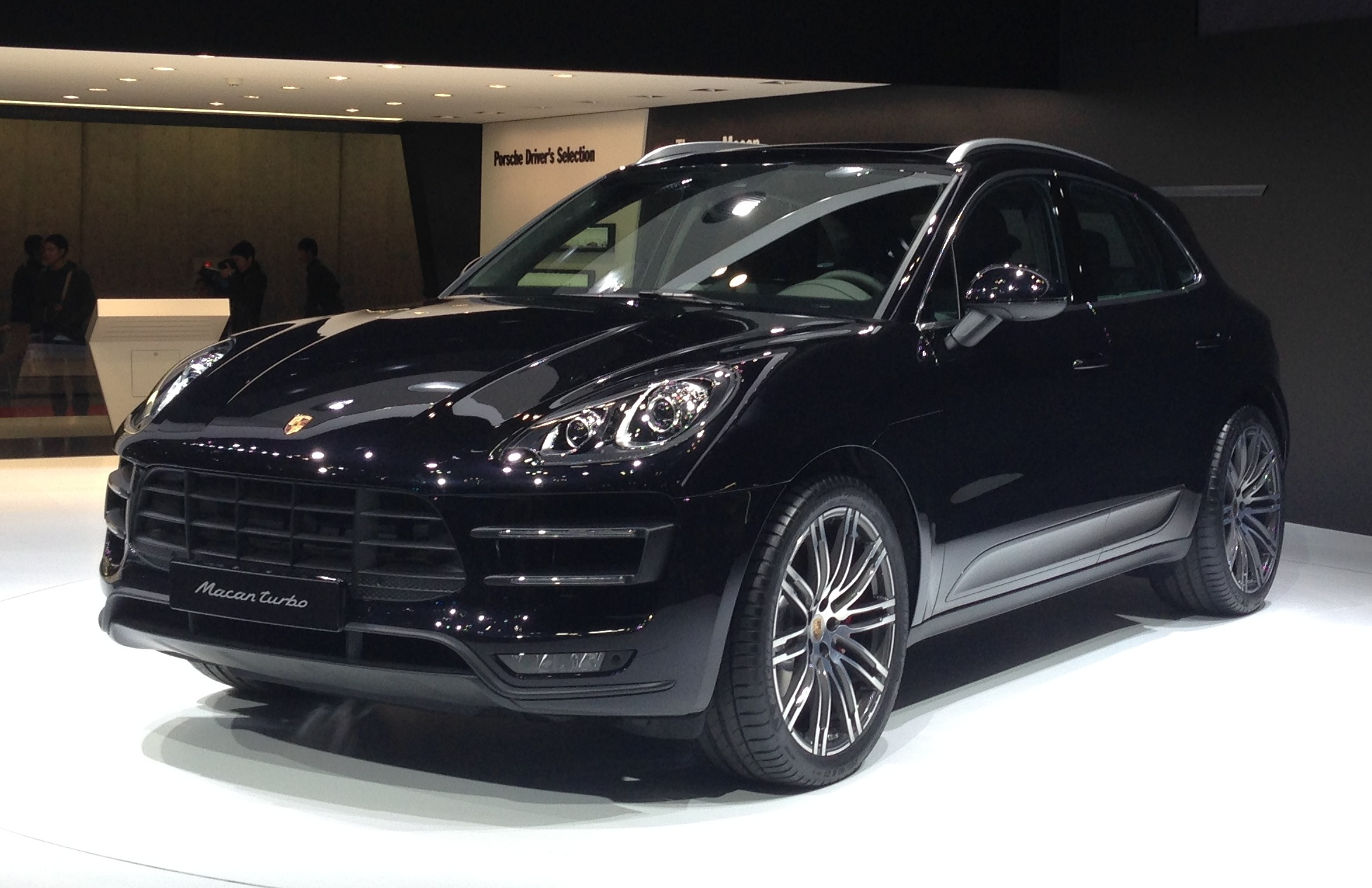 Porsche Macan photographed at the Tokyo Motor Show 2013.